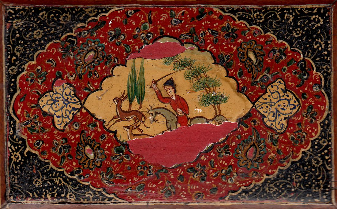 Eastern (islamic) miniature painting on cover of wooden casket. Size of painting 90x55 mm. Supposedly the end of the 19th century. This artwork is old enough so that it is in the public domain. (Image scanned)